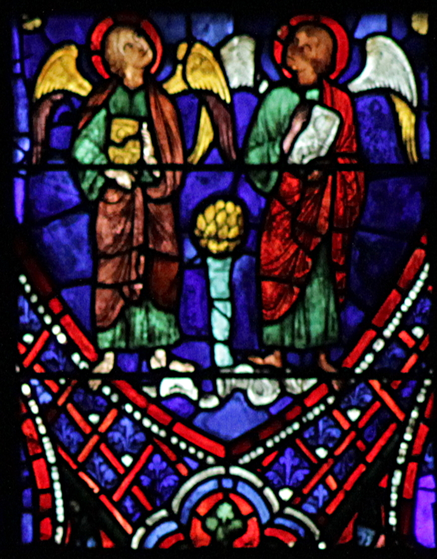 Fragment of File:Chartres 36 -Corrected.jpg - Row 08 : Panel 24 - Celestial Hierarchy III - Principals .